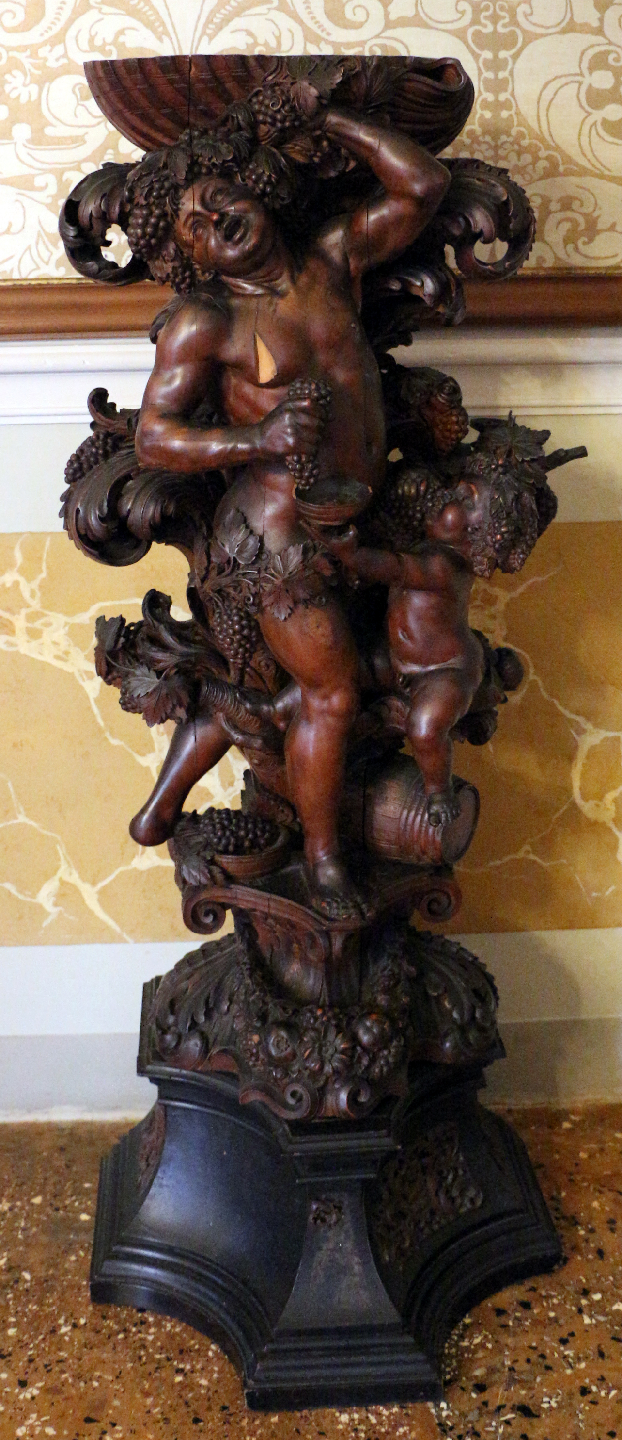 Ca' Rezzonico (Venice) - Brustolon Room